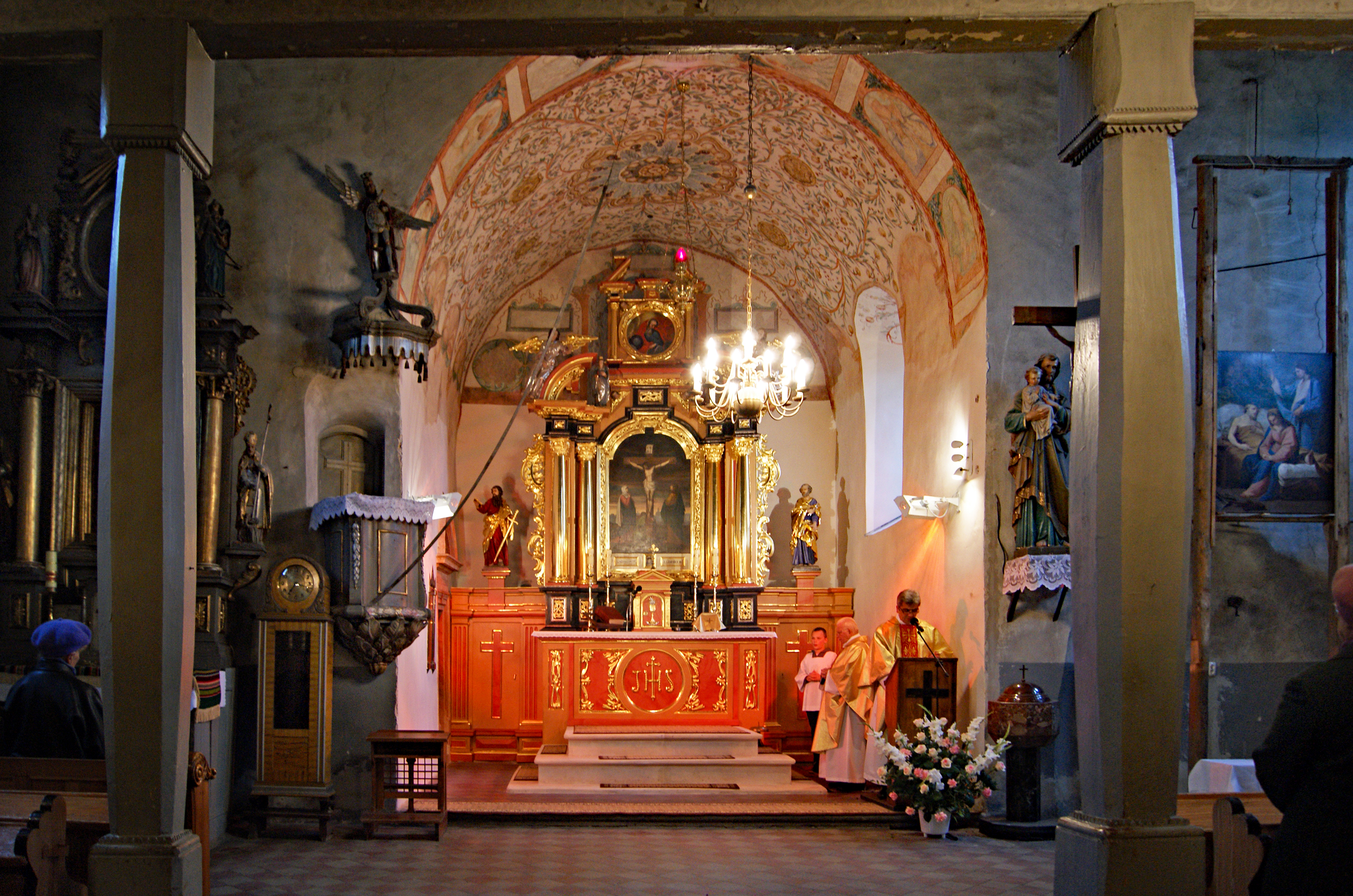 Church of the Exaltation of the Holy Cross (interior), Płaza village, Chrzanów County, Lesser Poland Voivodeship, Poland